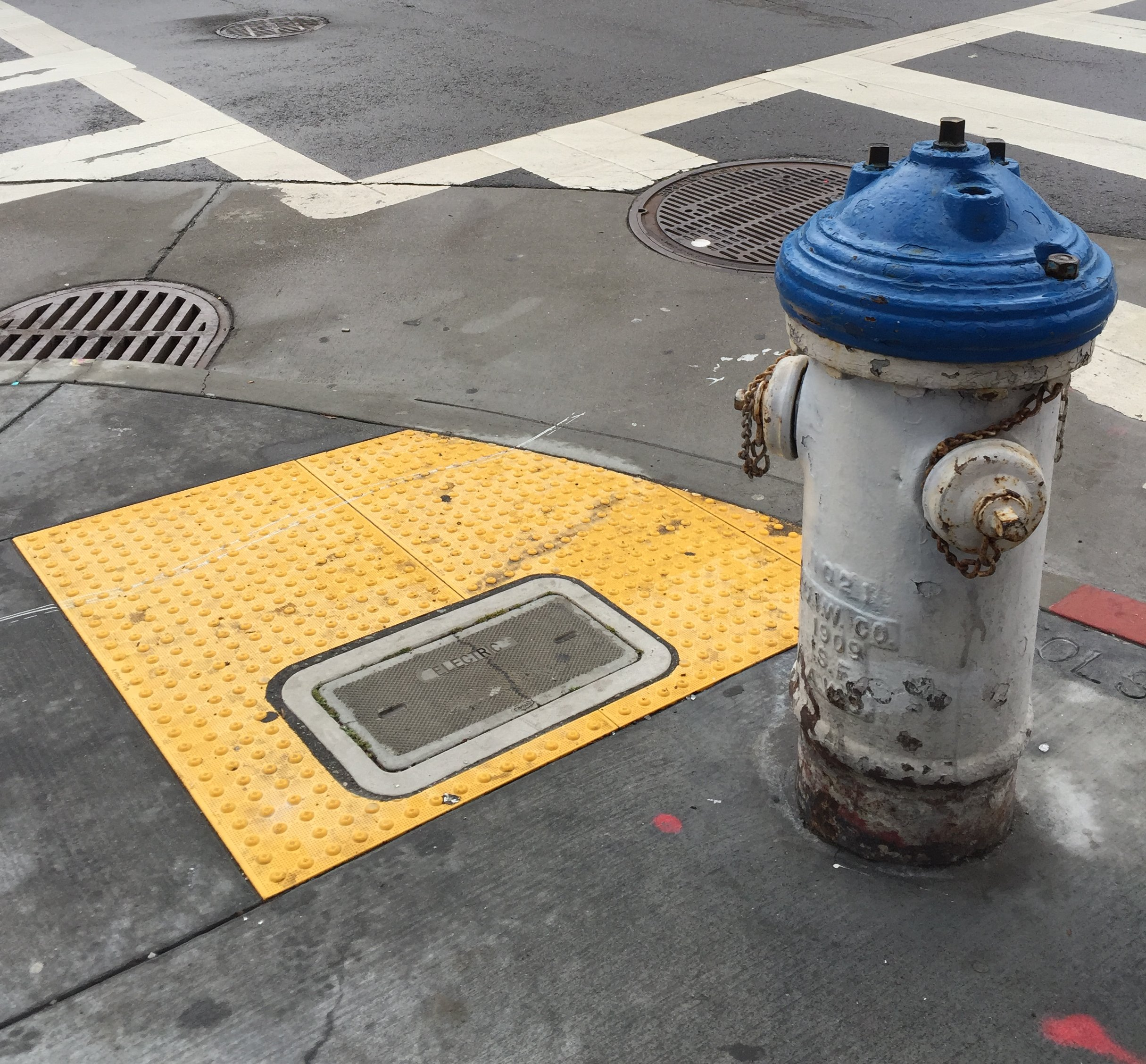 AWSS fire hydrant from 1909. Located on the northeast corner of 17th & Folsom in San Francisco, CA.